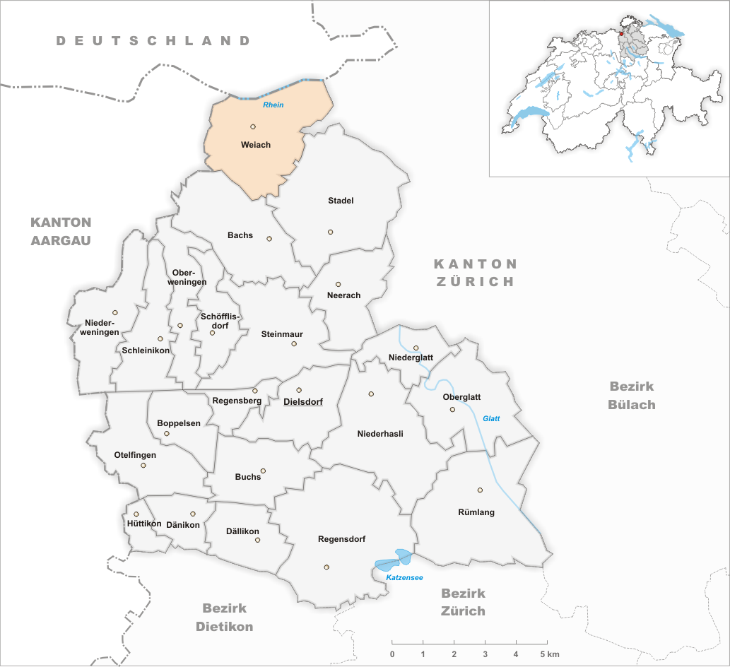 Municipality Weiach